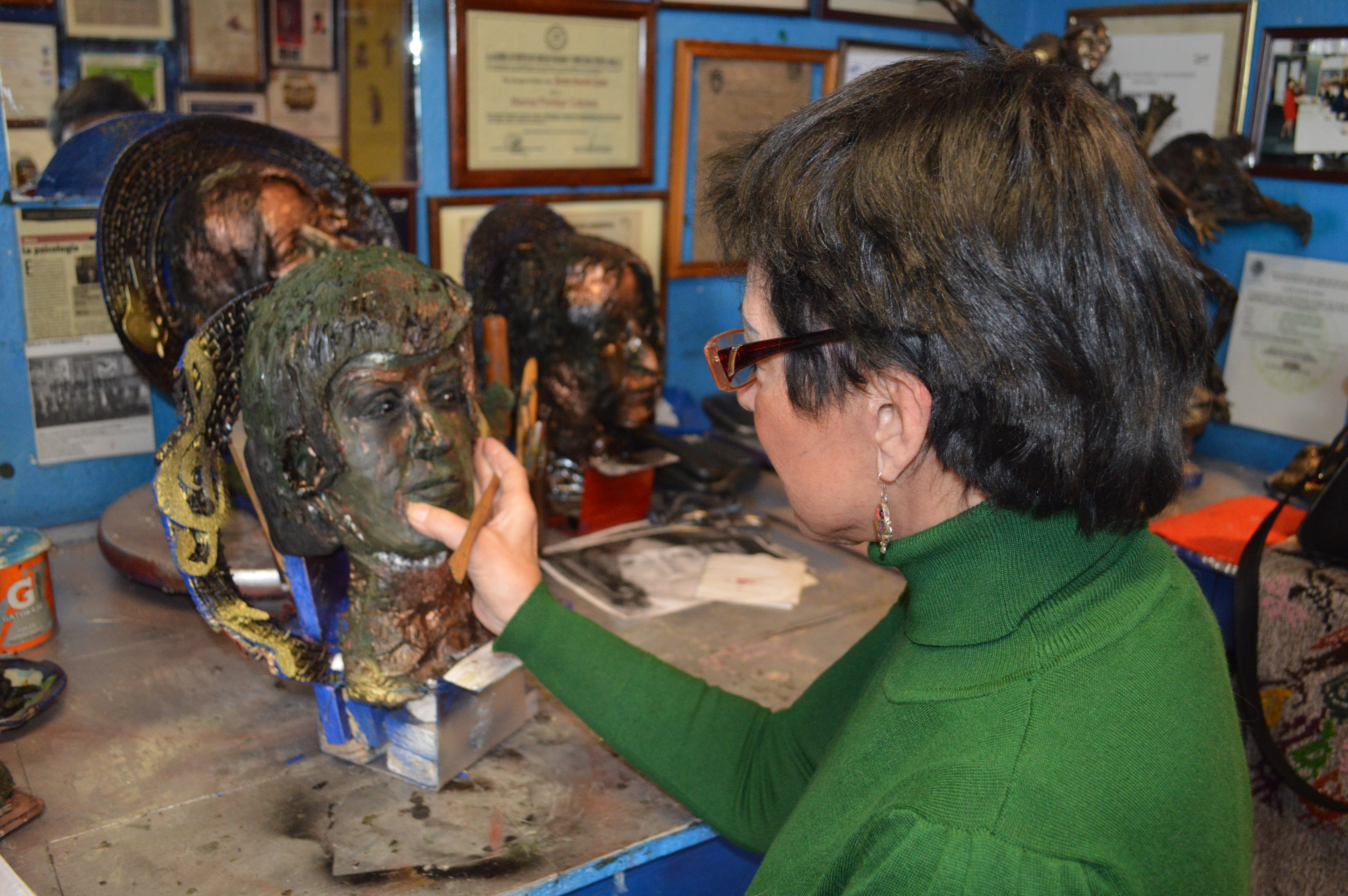 Marina Pombar Cabrera working on a sculpture at her home/workshop in Mexico City